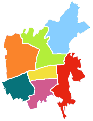 Map of the subdivisions of Almaty, Kazakhstan